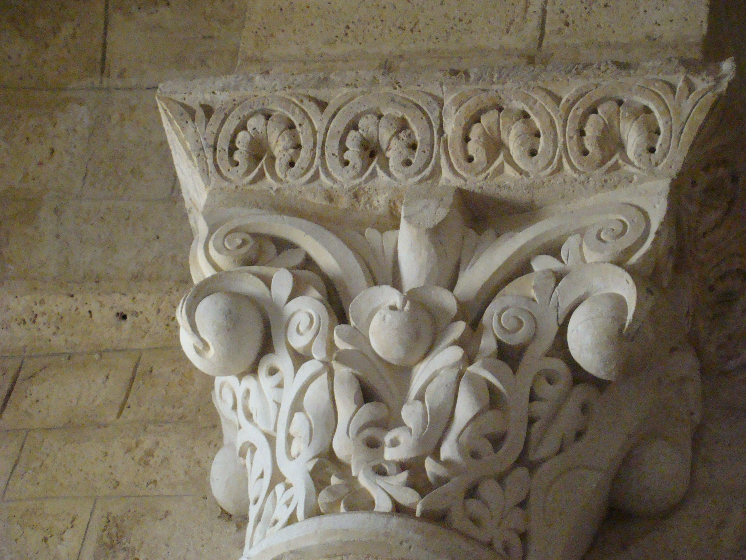 Capital with vegetal ornamentation in the church of San Martín de Fromista in Palencia, Spain.